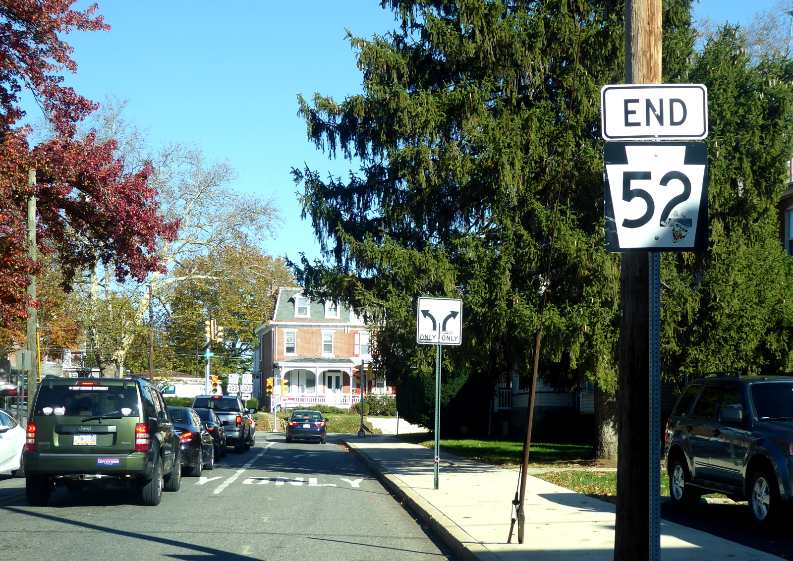 Pennsylvania Route 52 northern terminus at U.S. Route 322 Business in West Chester, Pennsylvania.